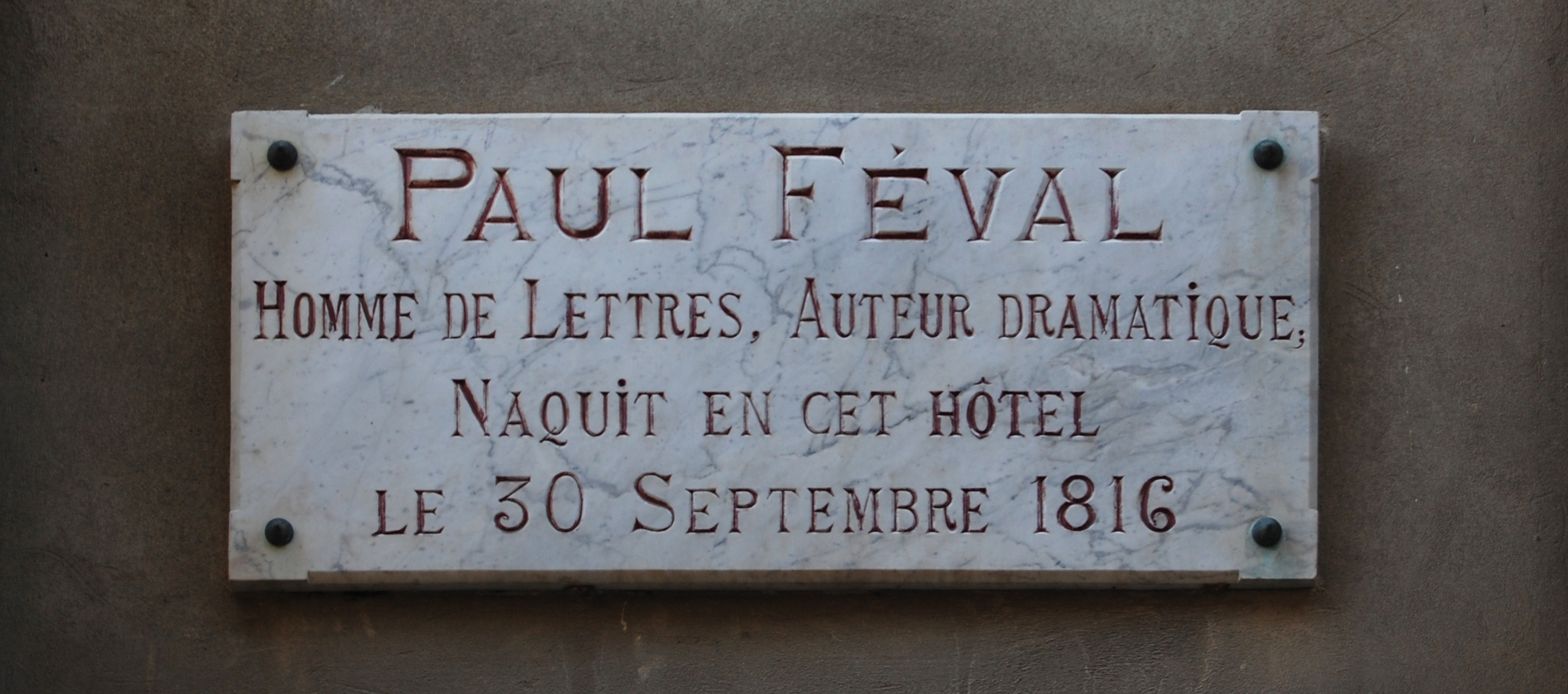 On the wall of the Hôtel de Blossac, a mention to Paul Féval, père.